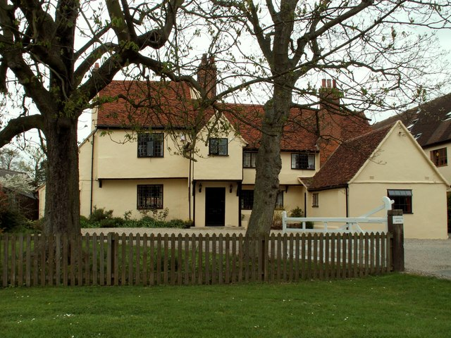 Garnett's House, Felsted, Essex. This is a good, well restored timber-framed building that stands along the main street of Felsted. Behind the house is the school cricket ground.